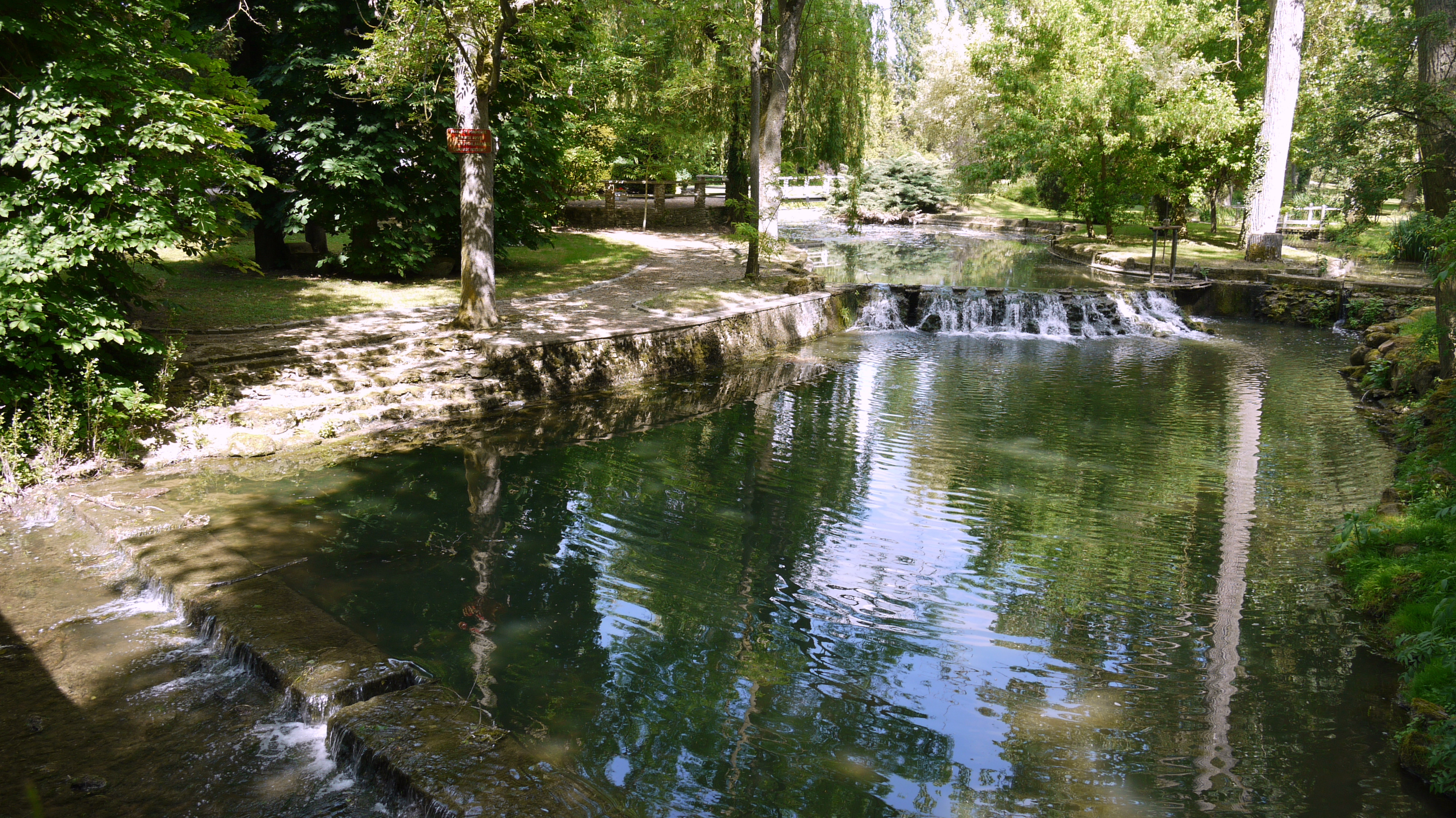 The river Yerres at the watermill of Pompierre, commune of Bernay-Vilbert, Seine et Marne, France